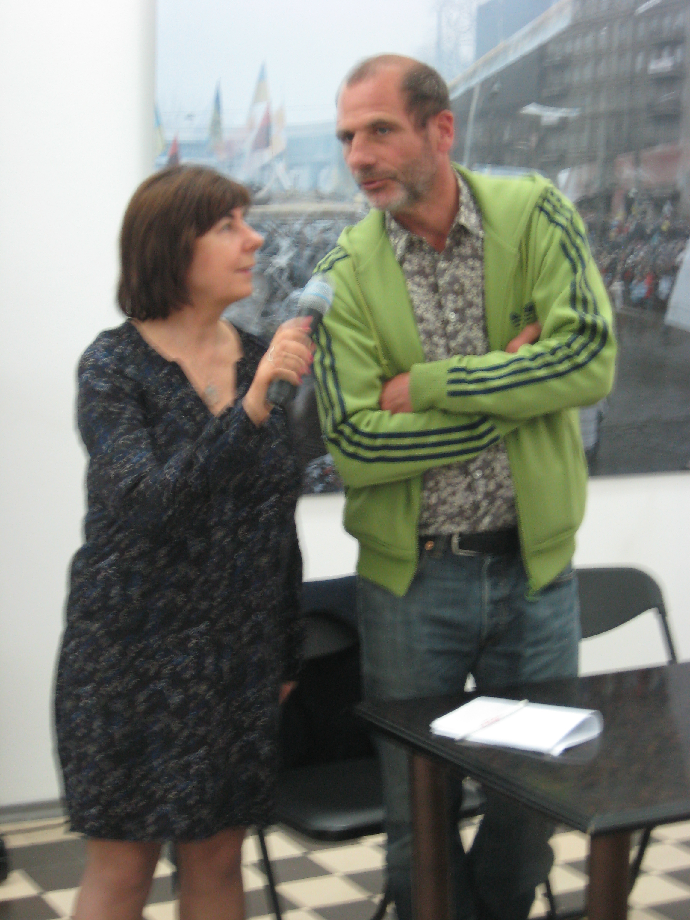 French photographer Éric Bouvet in Kyiv, National Art Museum of Ukraine. Ironically, I didn't have my camera with me, so I used my friend's camera to make this "not so good" picture.